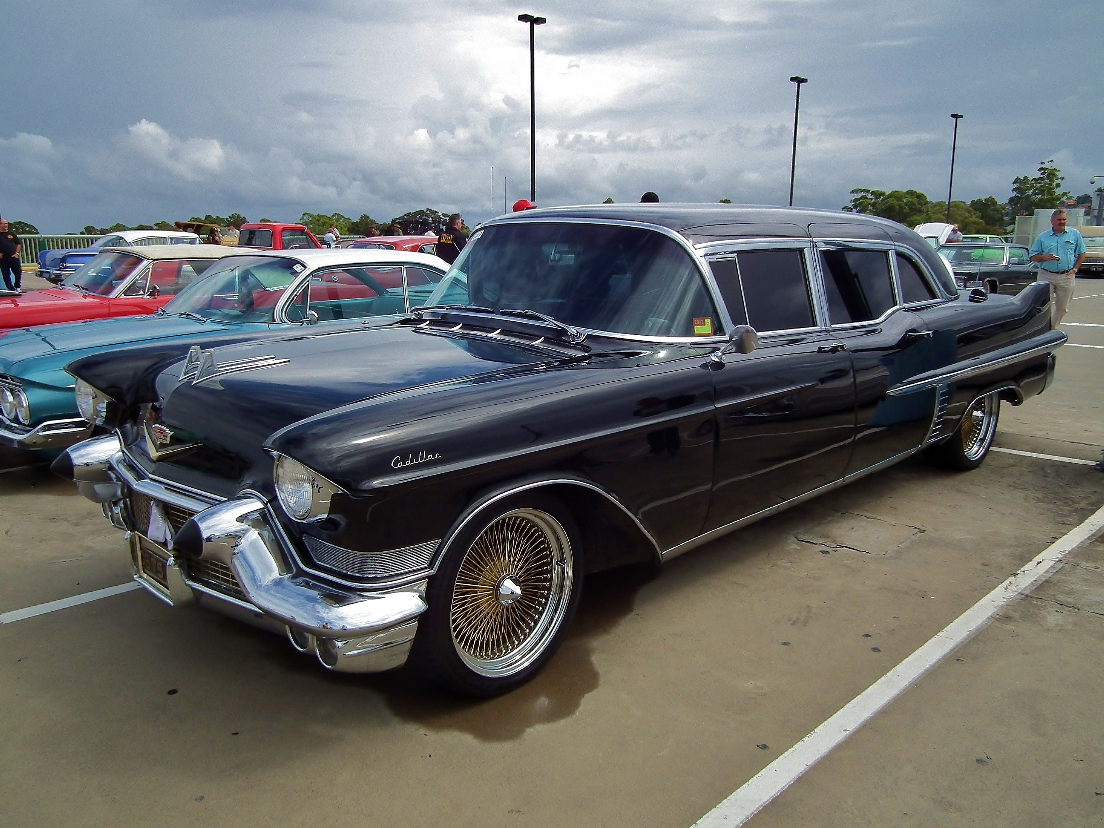 1957 Cadillac Fleetwood Series 75 limousine. Taken at the 2012 New South Wales All American Day, held at Castle Towers Shopping Centre, Castle Hill, Sydney.